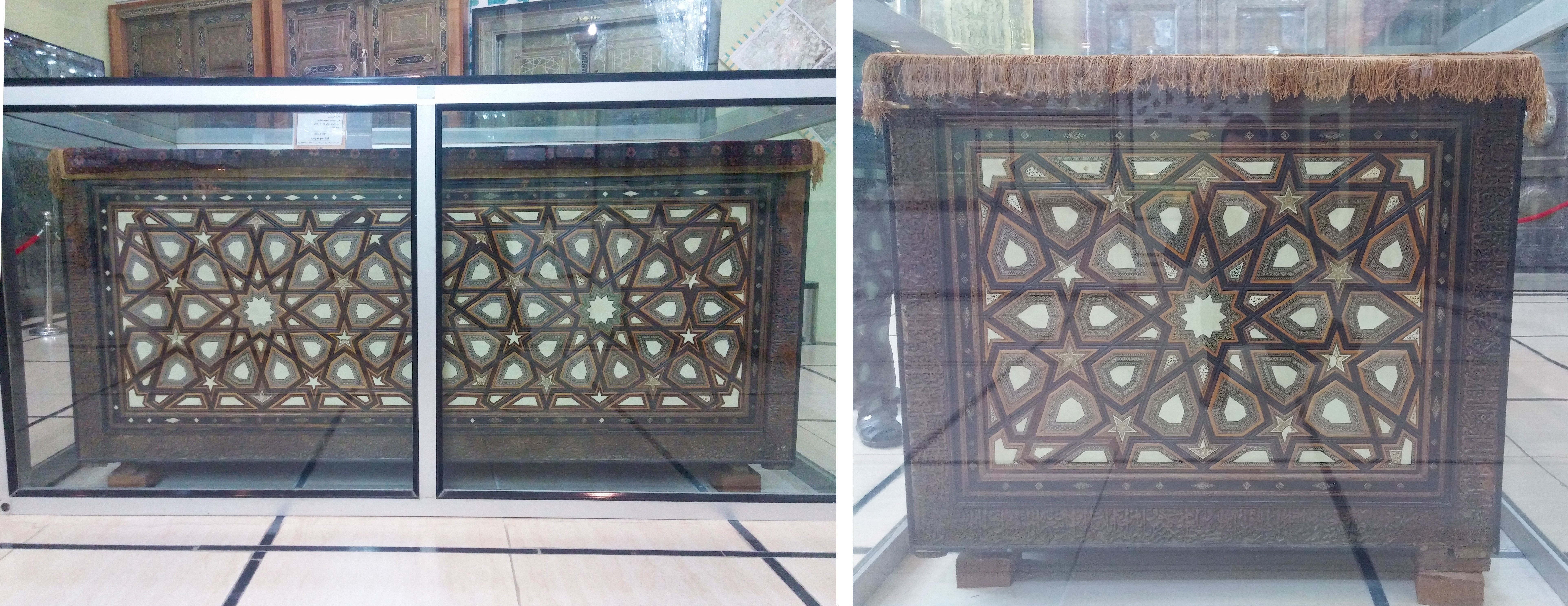 Tomb Box of Shah Safi I of Persia